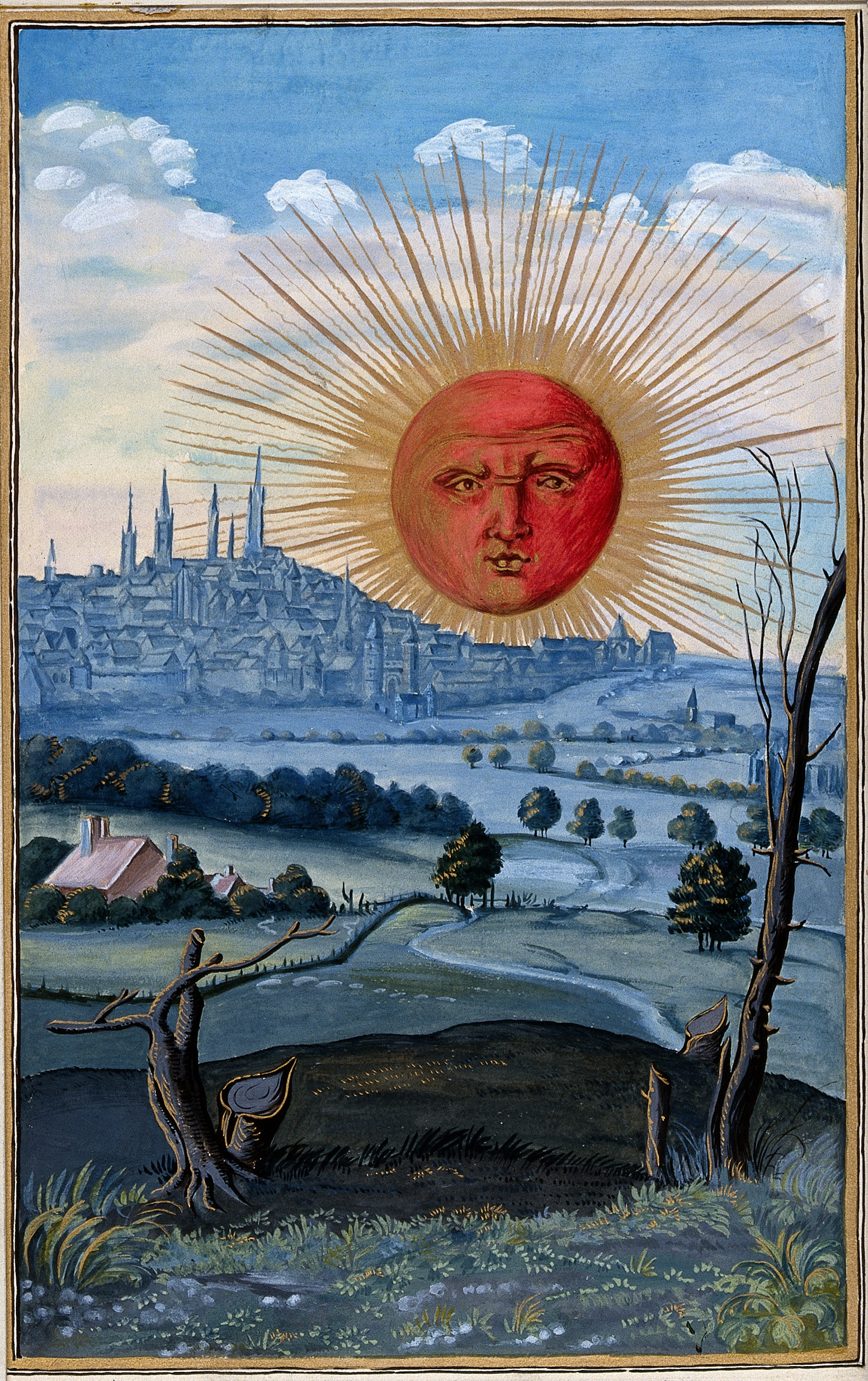 A red-faced sun rises above a city; stunted trees stand in the foreground; representing either the culmination of the alchemical Great Work or the star of hope that inspires the alchemist through his tribulation; from Salomon Trismosin's 'Splendor solis'. Watercolour painting. Iconographic Collections Keywords: Salomon Trismosin